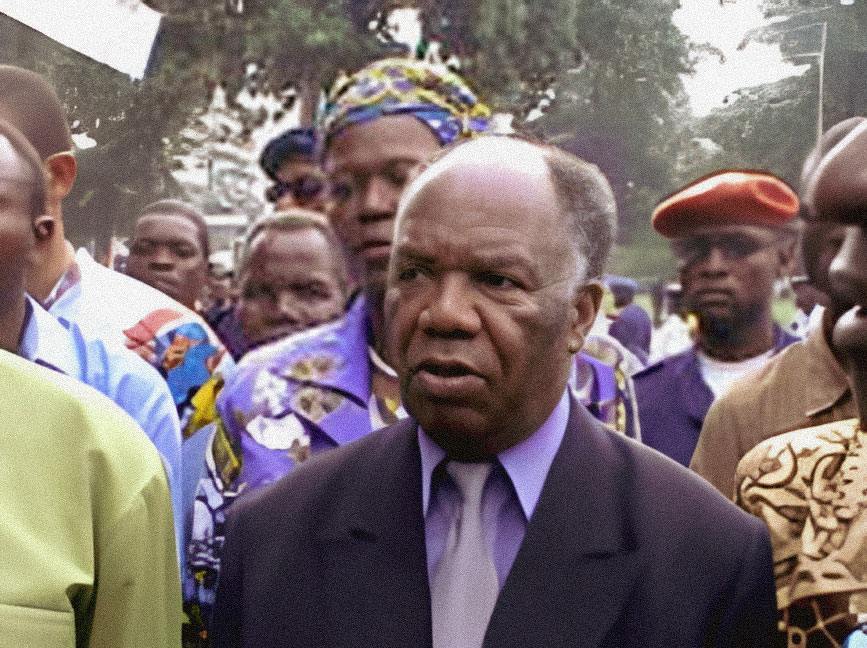 Loka Ne Kongo